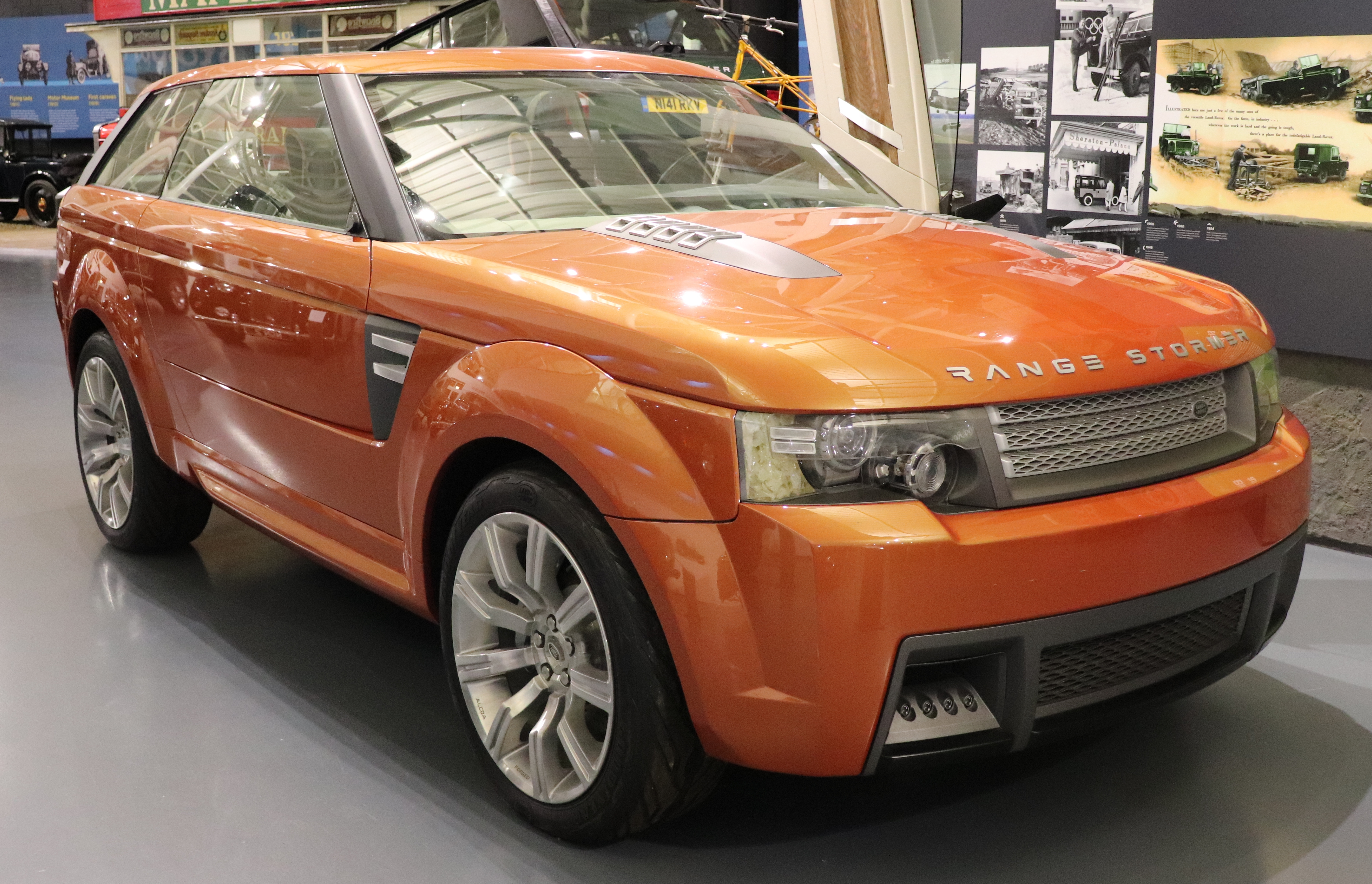 2004 Land Rover Range Stormer Concept 4.2 Front Taken at the British Motor Museum, Gaydon